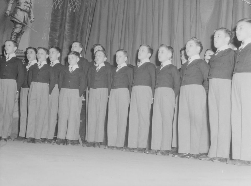 We see the singers in the choir "Little Master" in stage show.